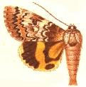 PLATE CCI.